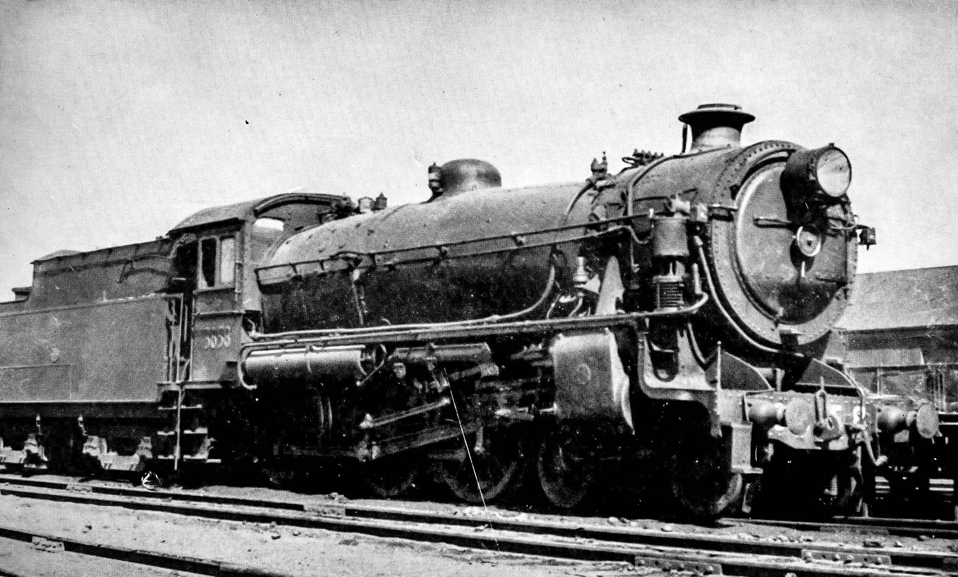 NSWGR Class C36 Locomotive